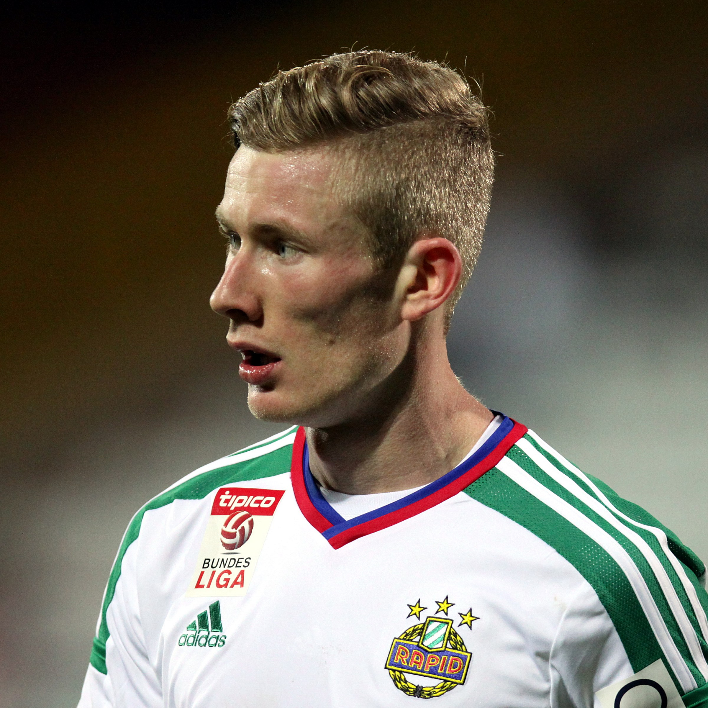 Match of the Austrian Football Bundesliga – FC Admira Wacker Mödling (red shirts) vs. SK Rapid Wien (white shirts) 2-1 (0-1) on 2015-12-02 in Bundesstadion Sudstadt – The photo shows Florian Kainz.